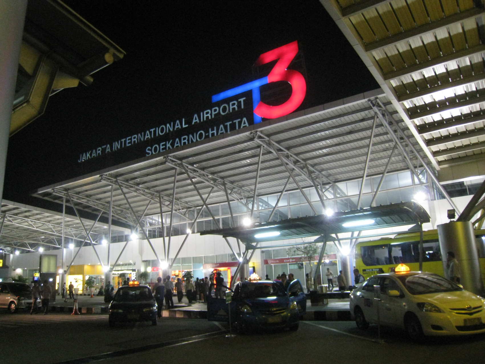 The taxi row in the front of Sukarno-Hatta International Airport Terminal 3, Jakarta, Indonesia.